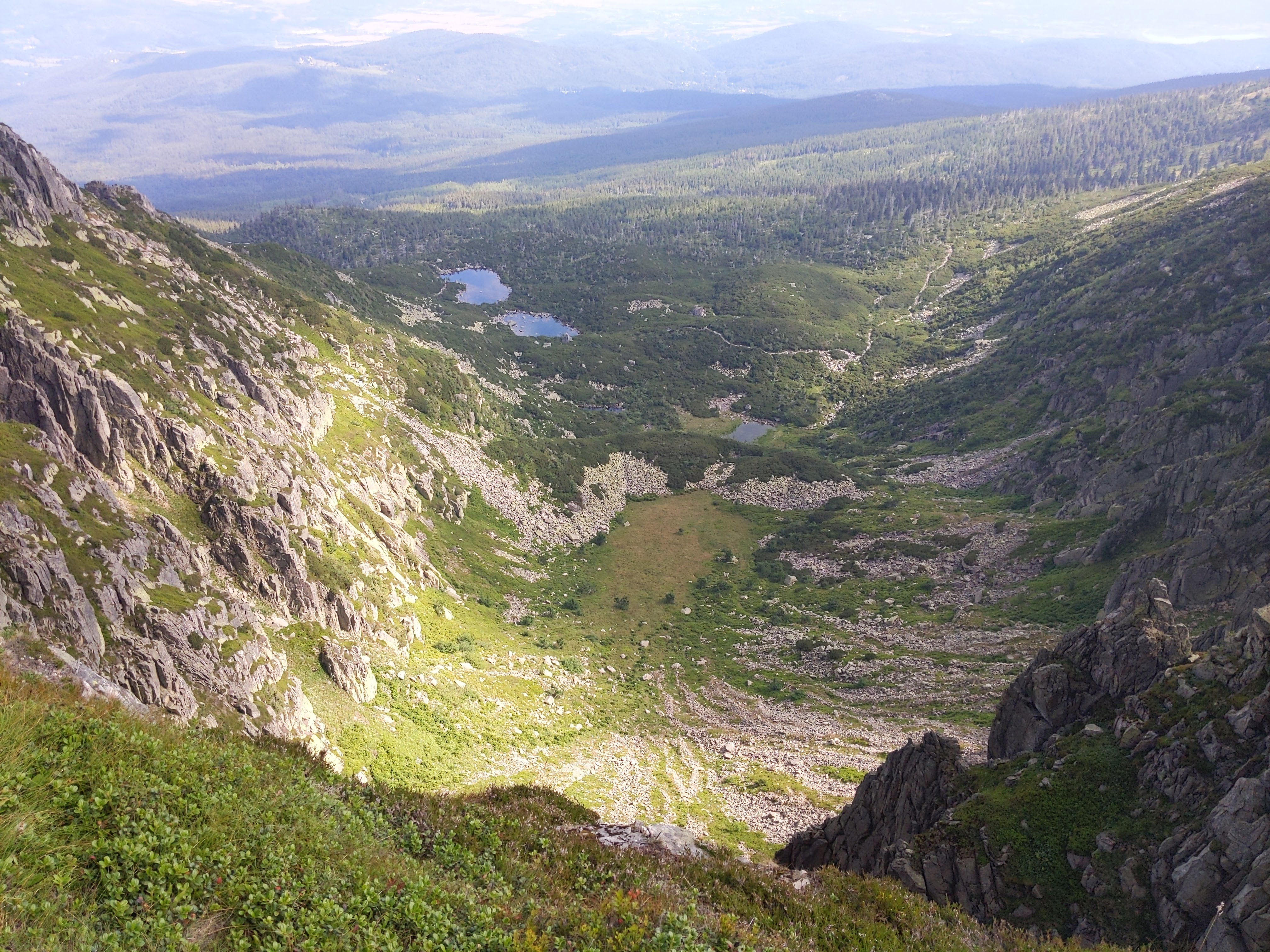 it might be in Poland, but I am too lazy to do a new proper category, anyway, it was photographed from Czechia… probably